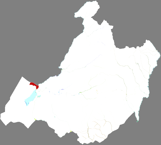 Location of Manzhouli county-level city in Hulunbuir City, China